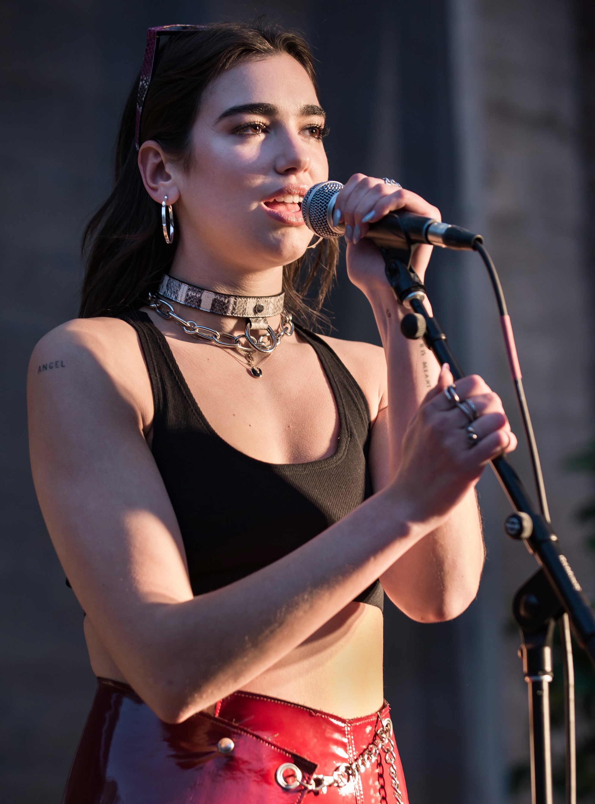 Dua Lipa performing live at Space 15 Twenty for Urban Outfitters Music, in Hollywood, Los Angeles, California, on Wednesday, April 19. 2017. Dua also signed copies of her limited-edition EP "The Only" and did a meet & greet with 150 fans.